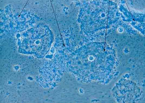 Bacterial vaginosis